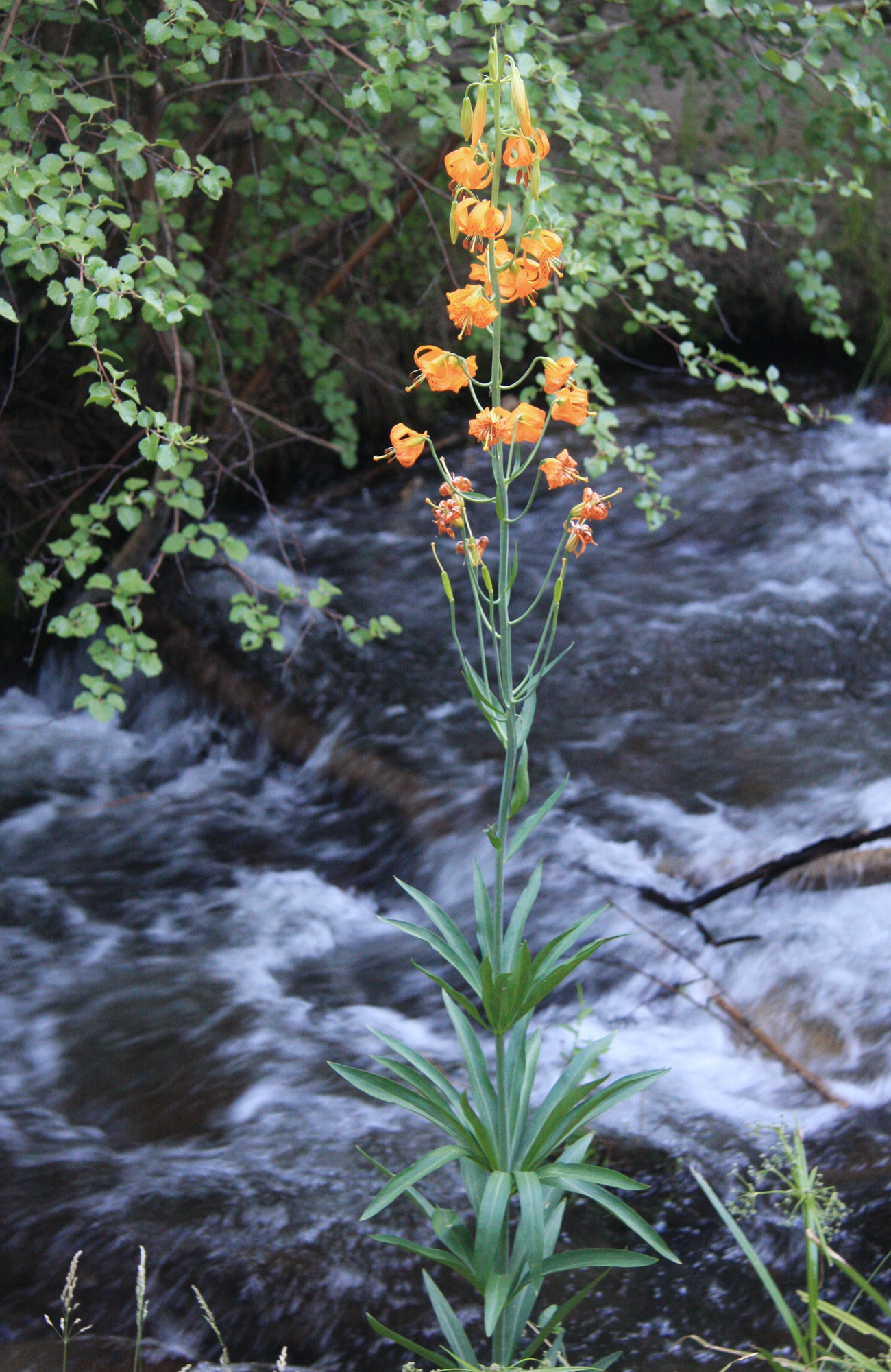 Plant of Columbia tiger lily (Lilium columbianum) at about 2000m, on east bank of Lower Rock Creek. Near bicycle path down creek, Mono County, California.